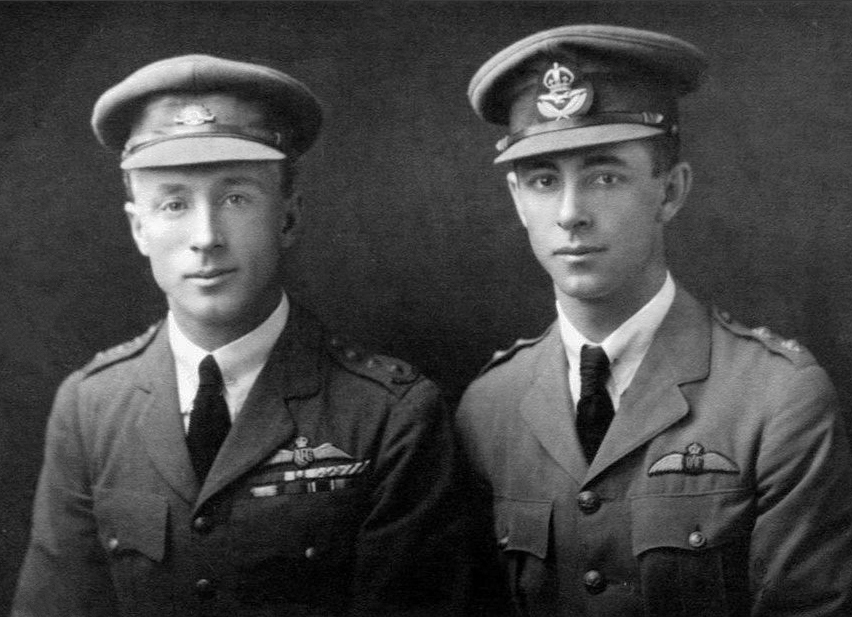 Captain Sir Ross Smith K.B.E., M.C., D.F.C., A.F.C., and his brother Lieutenant Sir Keith Smith K.B.E.